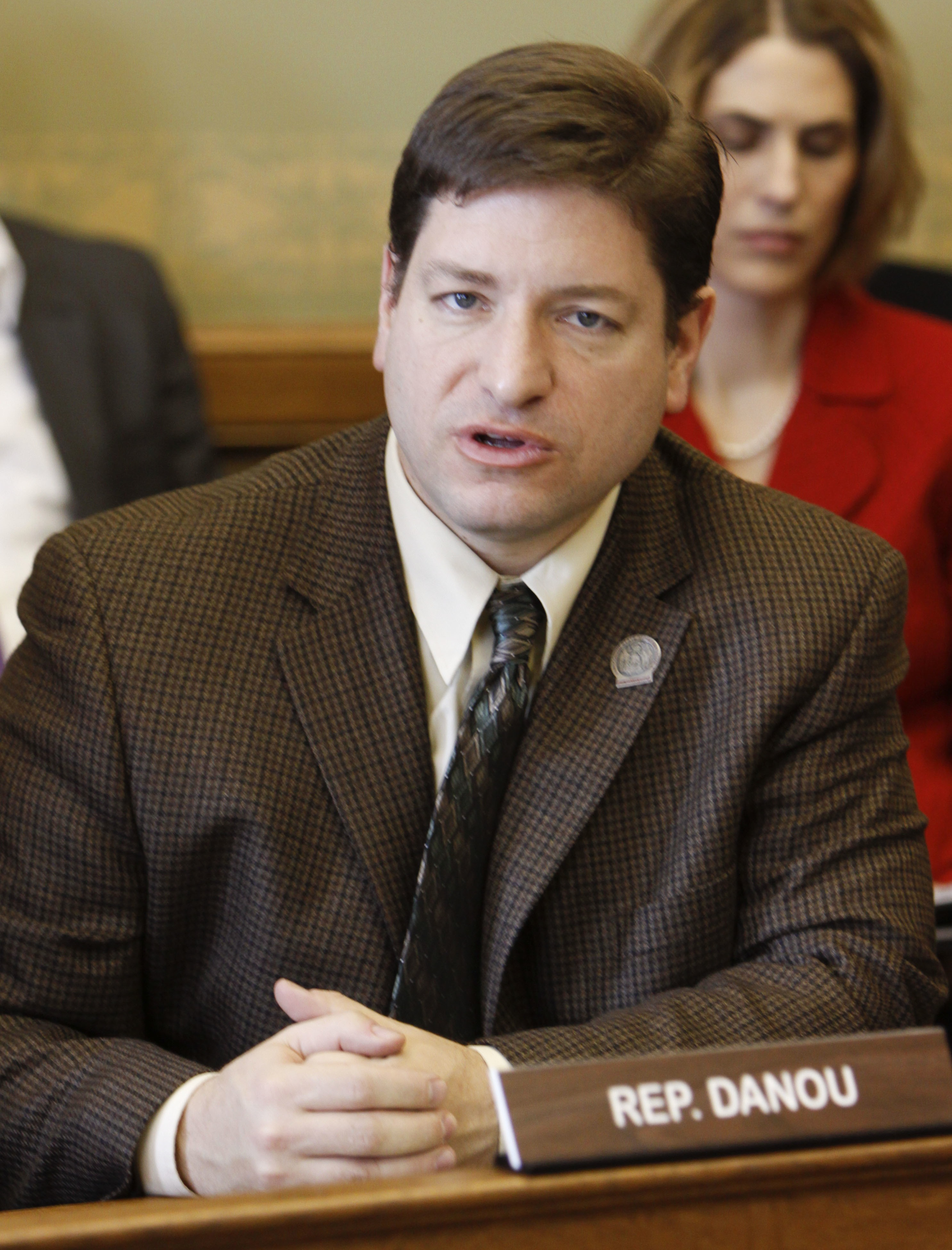 Wisconsin State Assemblyman Chris Danou.